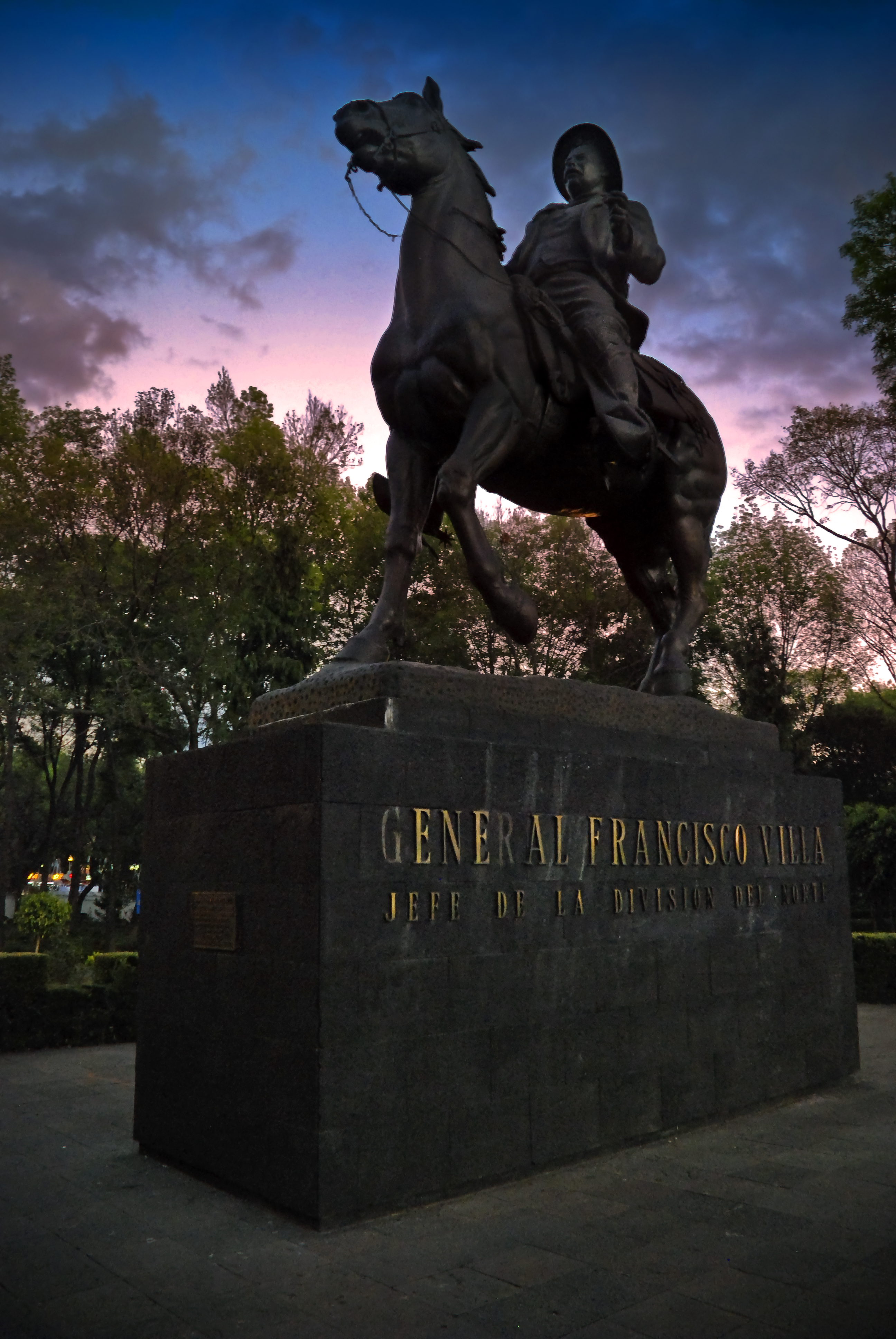 Equestrian statue of Francisco Villa in Park (Los Venados Park, Mexico City)